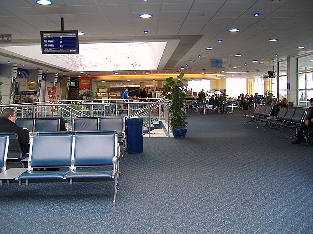 Ronaldsway Airport, Isle of Man This is the cafe and bar area.